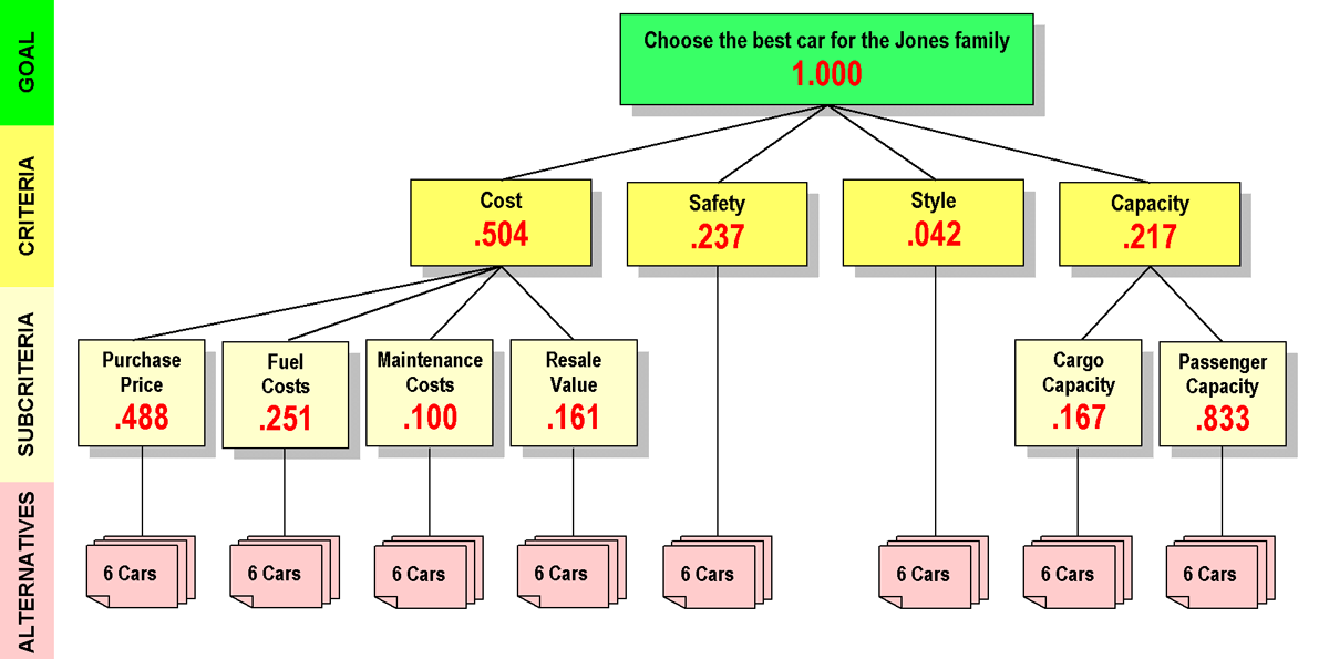 Analytic Hierarchy Process. Illustration for an article.